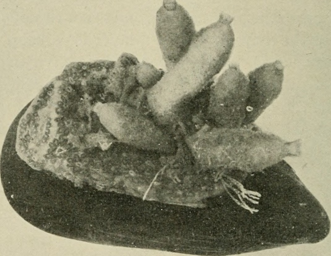 Title: The American Museum journal Year: c1900-(1918) (c190s) Authors: American Museum of Natural History Subjects: Natural history Publisher: New York : American Museum of Natural History Text Appearing Before Image: 2 24 THE AMERICAN MUSEUM JOURNAL choanocytes and their digestible parts absorbed. What is left is discarded and flows with the current out through the osculum at the summit of the vase. The mesoderm (mes.) is a thin jelly-like layer between the ectoderm and endoderm. It contains scattered amoeboid cells and the reproductive elements, and is the origin of the skeleton. 2. The Canal Systems. In the form of sponge just described the mesoderm is extremely thin, but if, as in the majority of sponges, there is a greater or less thickening of this layer, the pores will no longer be perforations, but will become transformed into tubes or canals Text Appearing After Image: FIG. 9.—A SYCON SPONGE (Graiitia ciliata FlemingXoROWINQ ON A MUSSEL SHELL Star-shaped colonies of the Ascidian Botrylliis are also growing on the same shell. (See p. 221, Fig. 3), which may branch and be modified in various ways. This gives rise to three general types of sponges which are therefore based mainly on the arrangement and varia- tions of the pore- and canal-systems. These are known as (a) The Ascon Type, (b) The Sycon Type, Cc) The Rhagon Type.